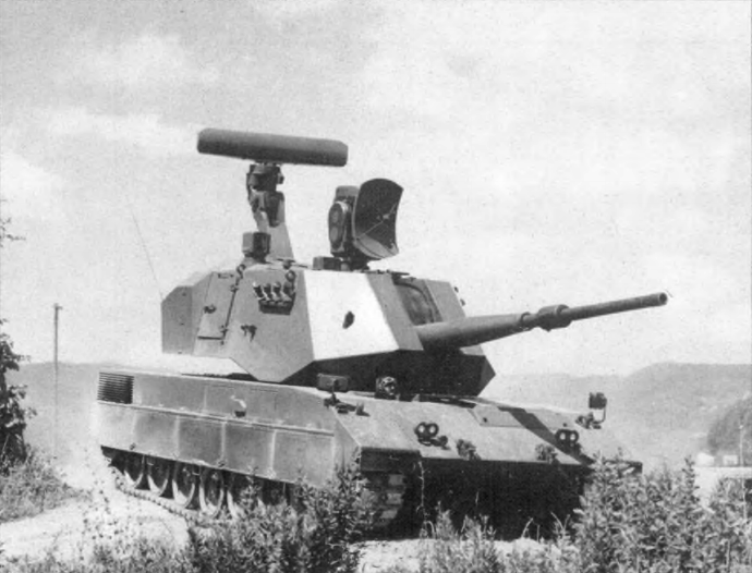 76-mm Super Rapid Gun System mounted on Italian OF-40 main battle tank chassis